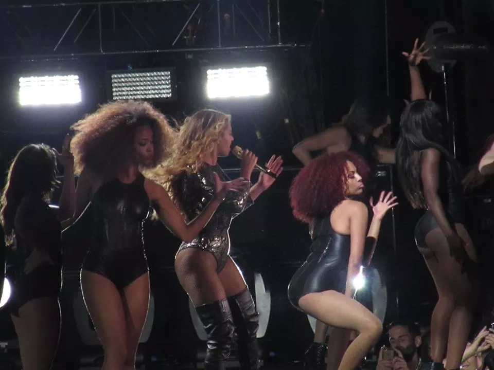 Beyoncé performing at Safeco Field in Seattle, Washington during her co-headlining "On the Run Tour" with Jay-Z, on July 31, 2014.